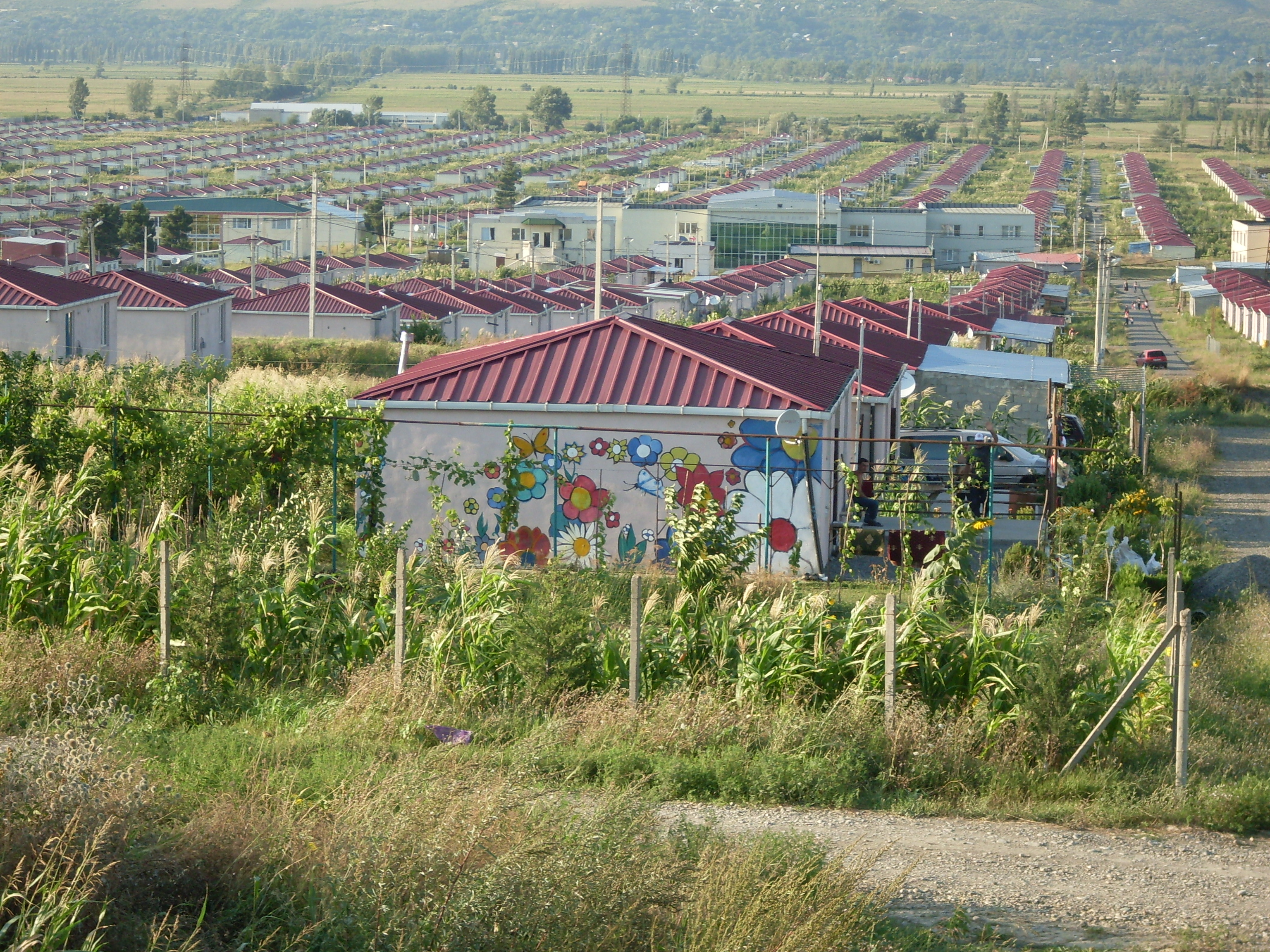 Tserovani, the village of refugees from 2008 Russo-Georgian war.